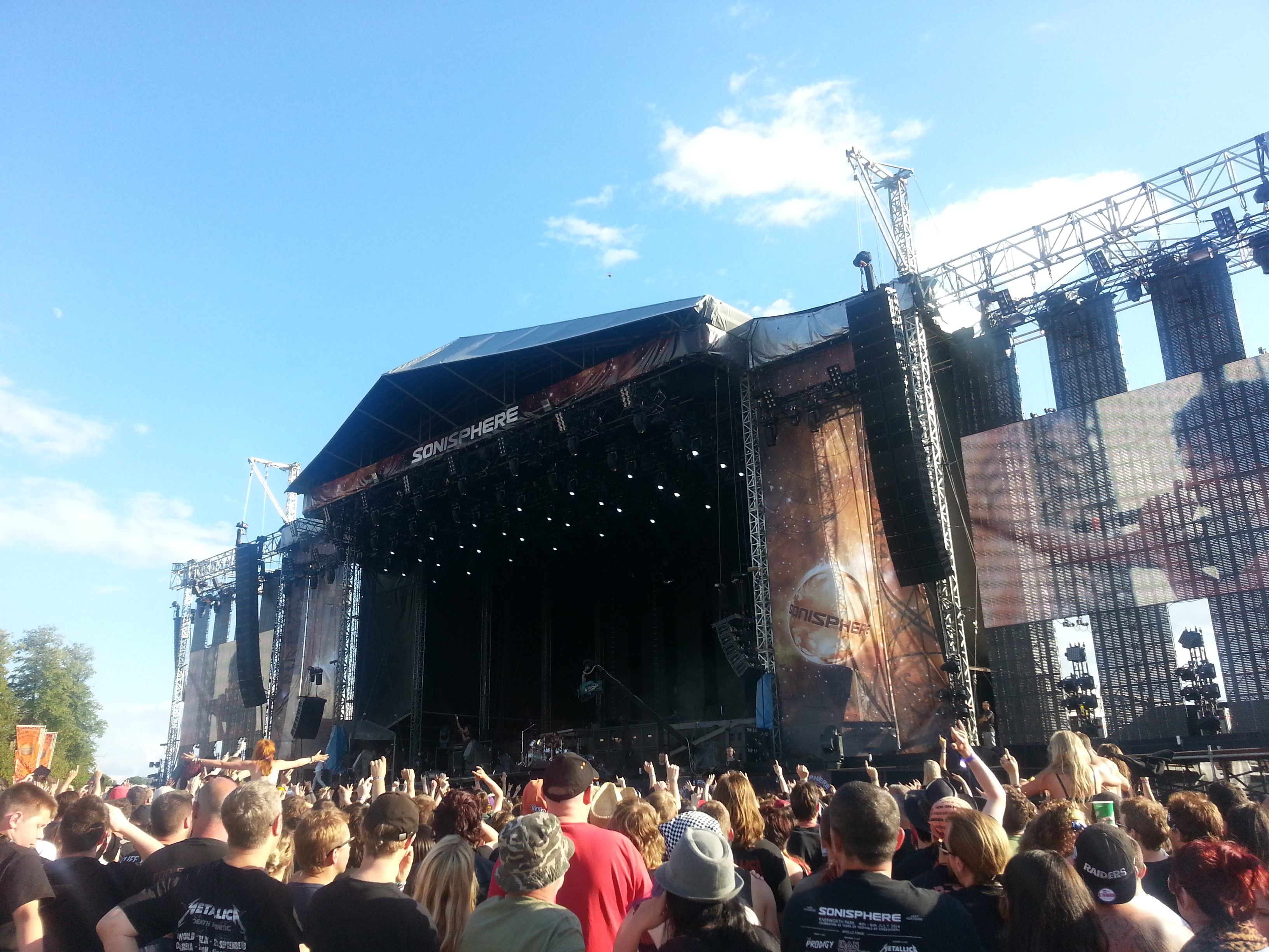 Alice in Chains at Sonisphere 2014 UK